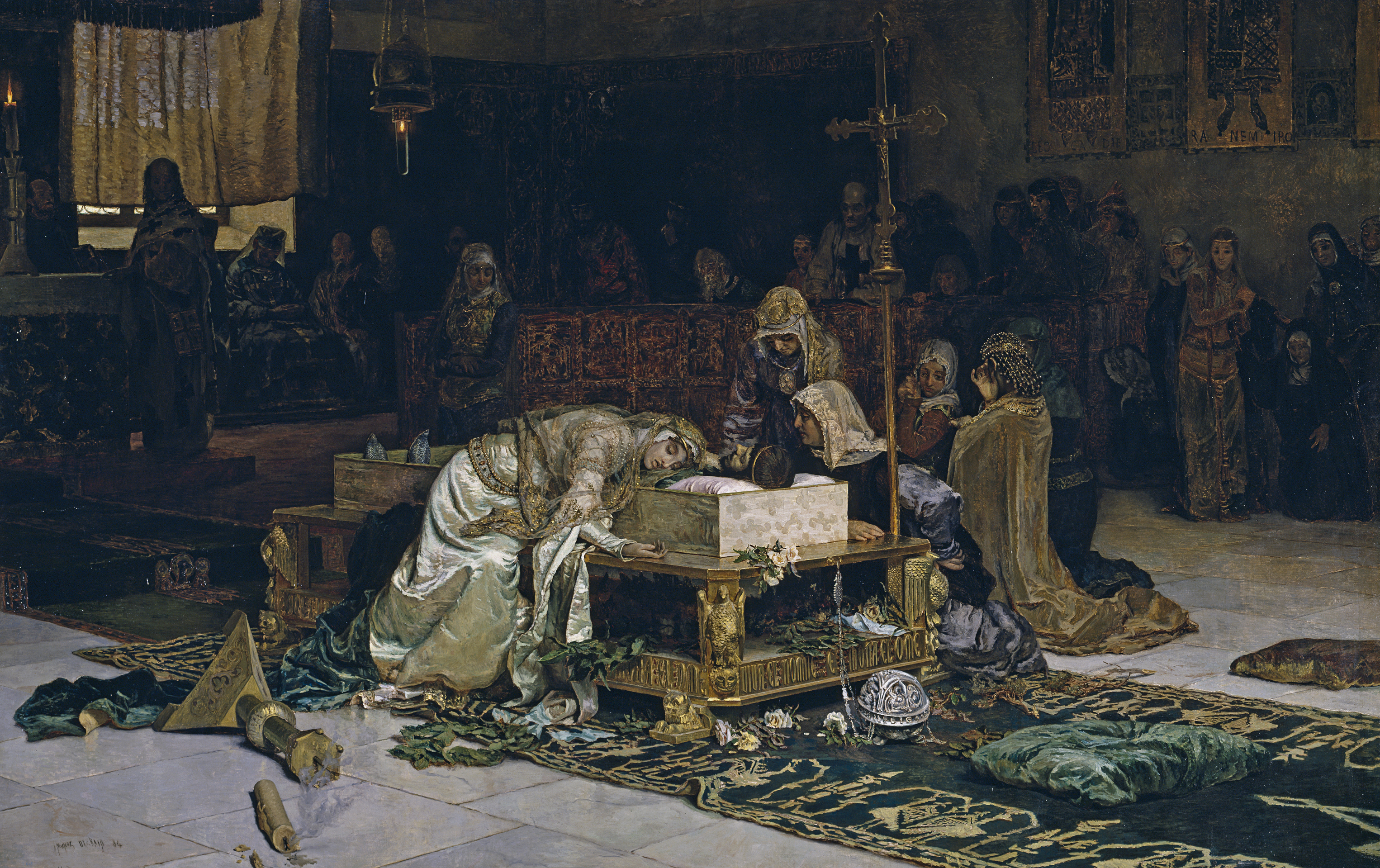 "The lovers of Teruel", by Antonio Muñoz Degrain, Prado Museum, Madrid, Spain.